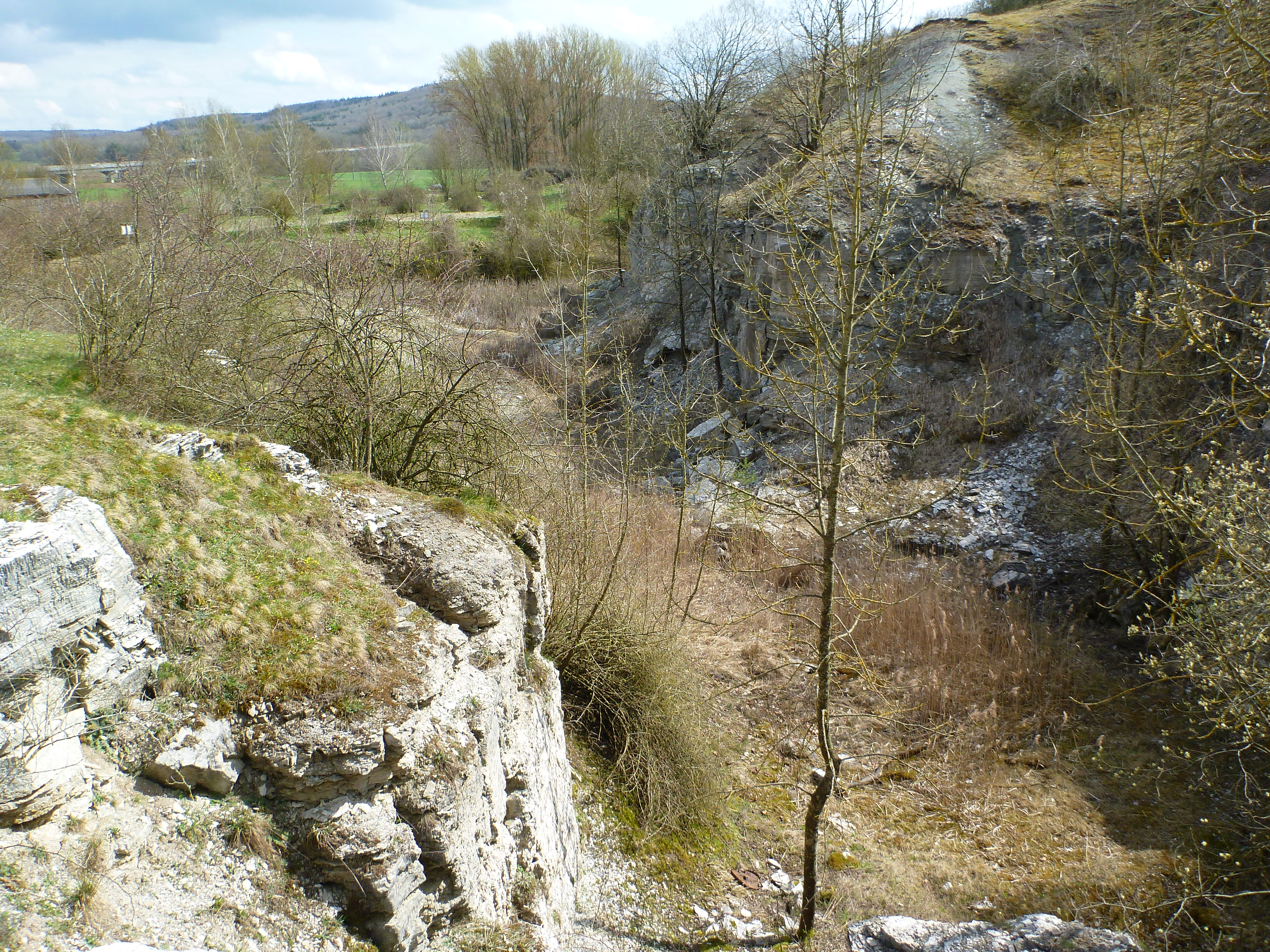 Gipsbruch Endsee